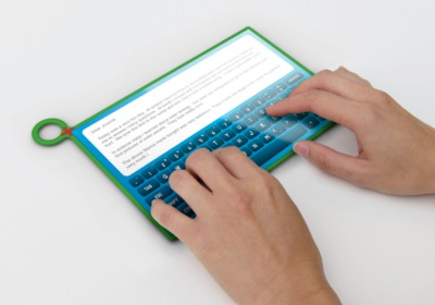 olpc cgi for version concept